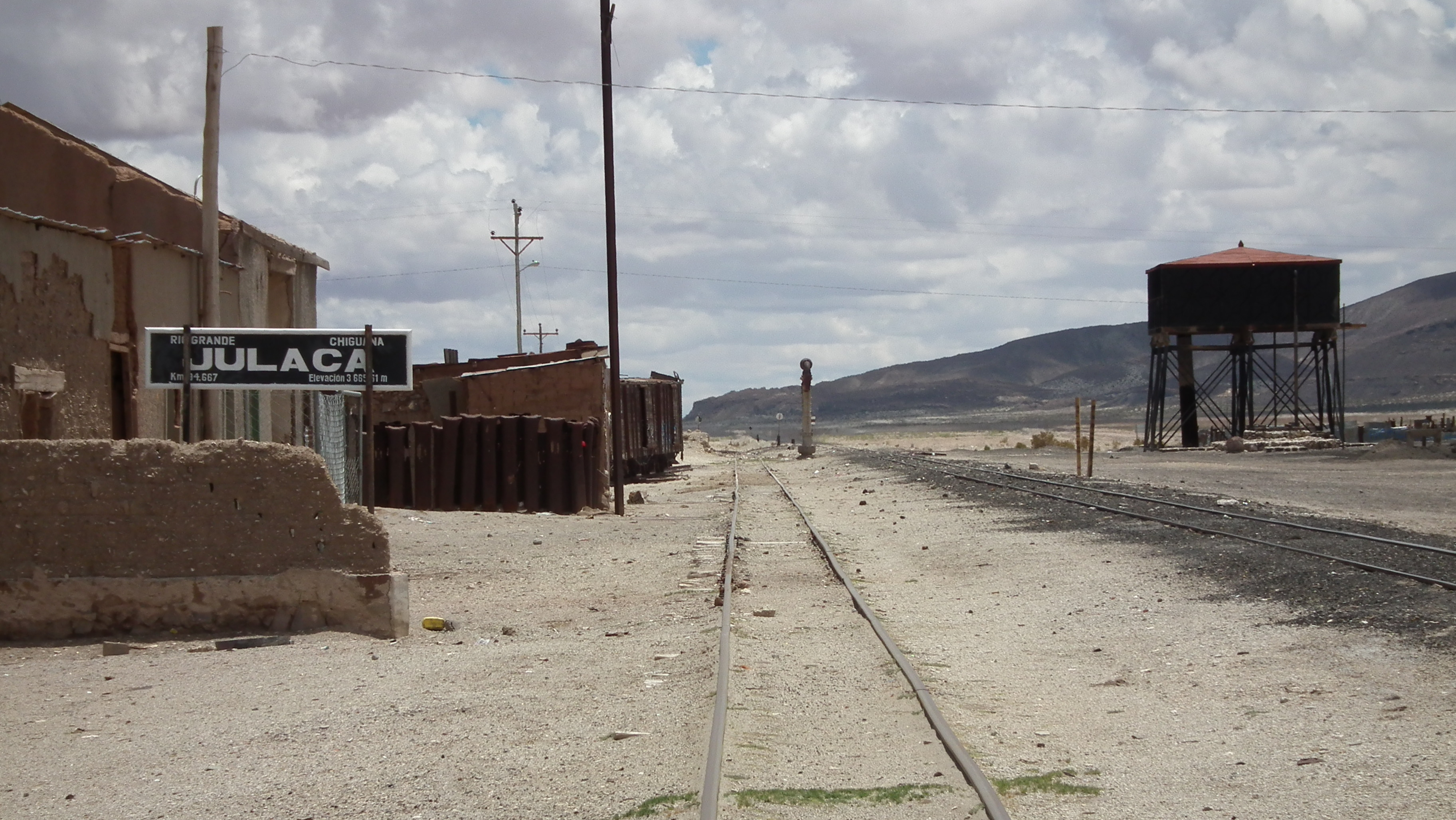 Railway station of Julaca, Bolivia.